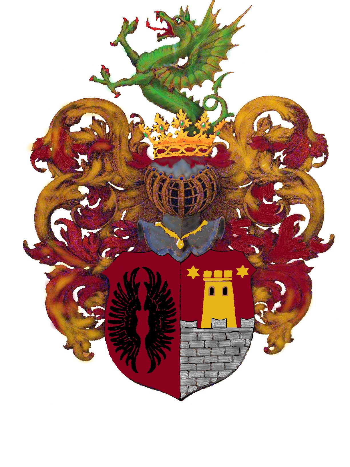 Zrinski family coat of arms